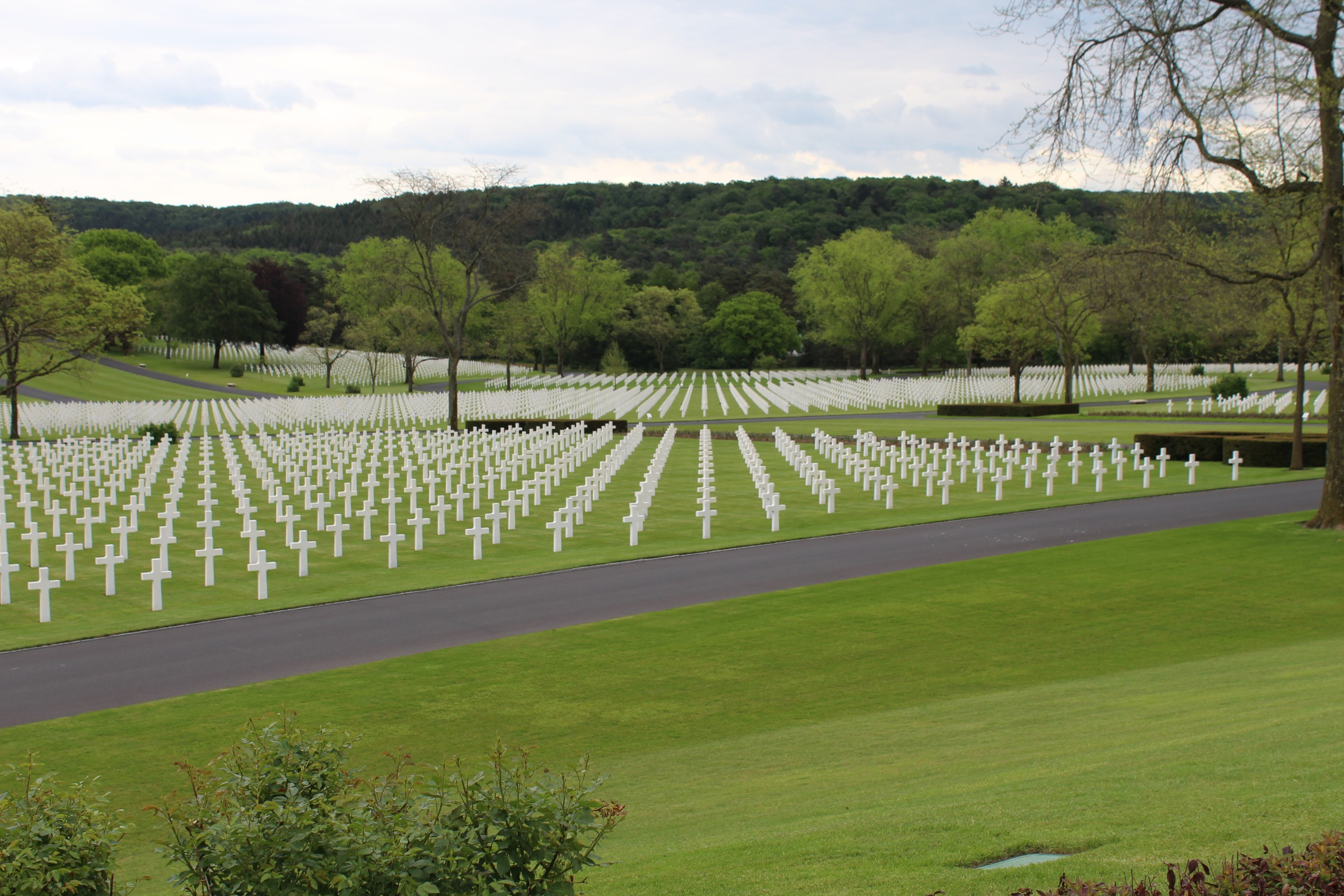 Saint-Avold, Lorraine American Cemetery and Memorial